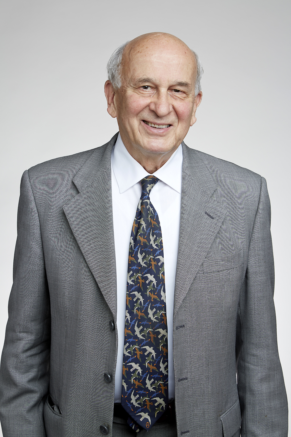 Pasko Rakic, MD, PhD (Croatian: Paško Rakić) is a Yugoslav-born American neuroscientist, who works in the Yale School of Medicine Department of Neuroscience in New Haven, CT. Attribution: The Royal Society